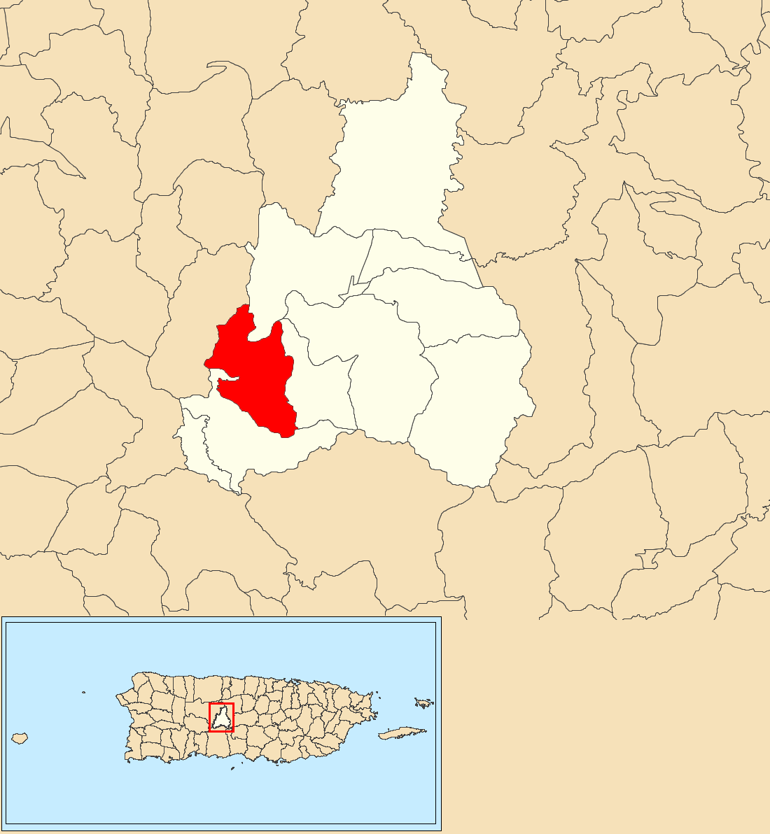 Collores, Jayuya, Puerto Rico locator map